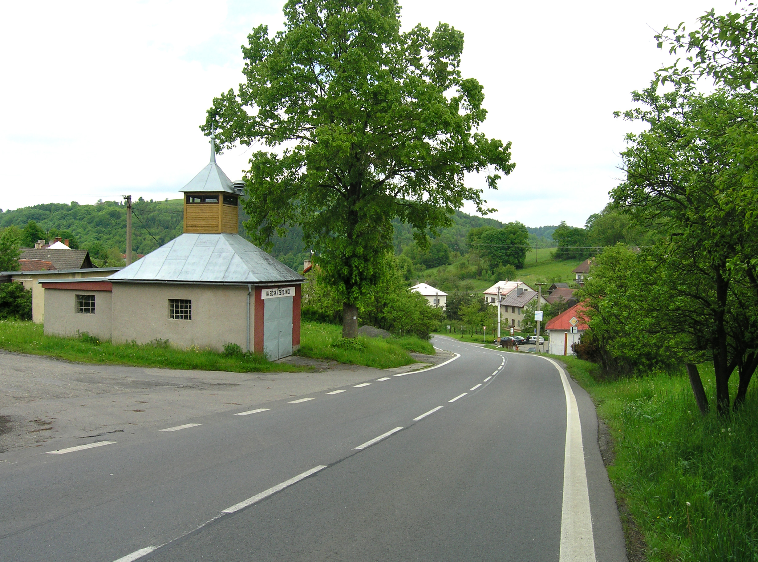 Road No 49 in Pozděchov, Czech Republic